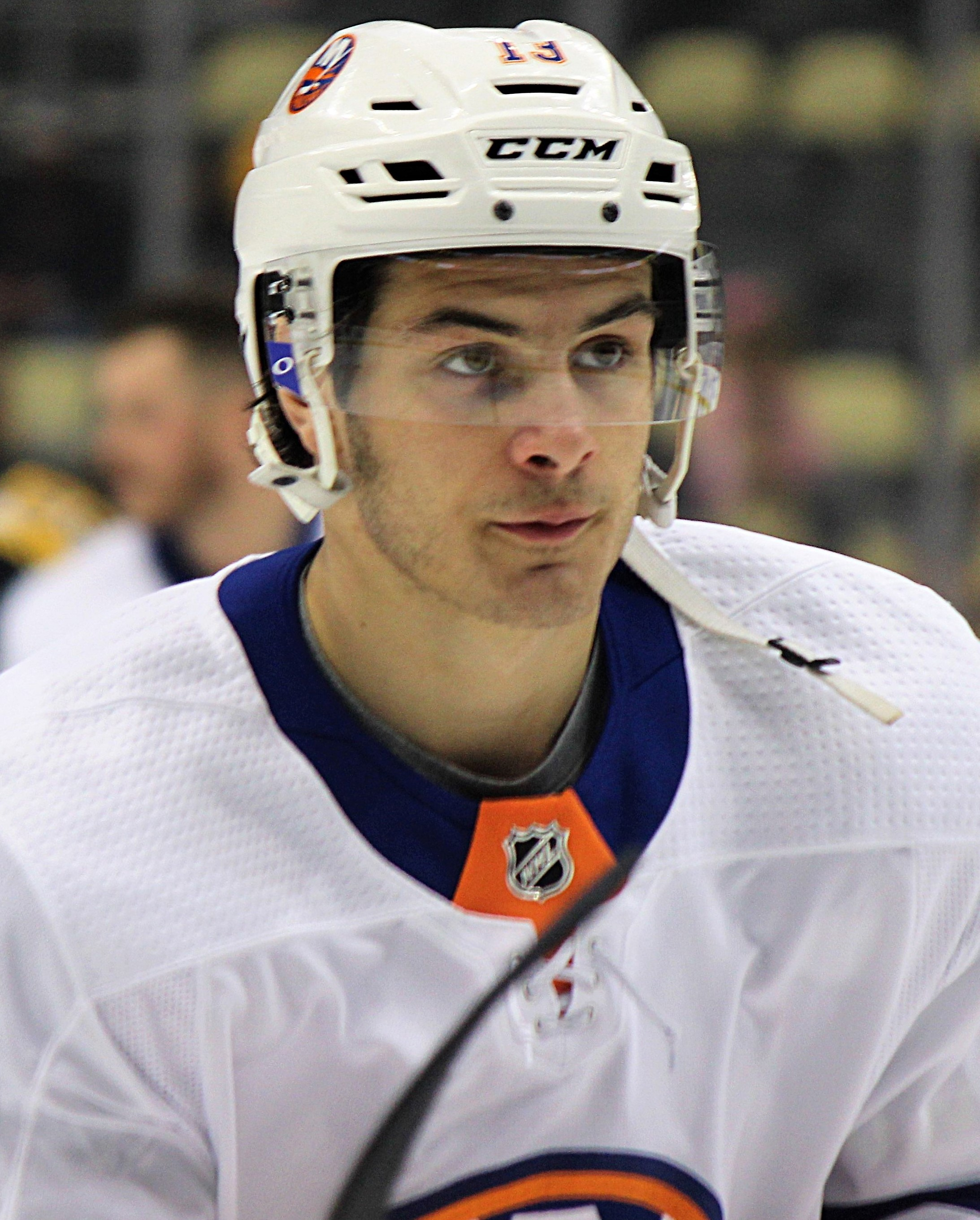 New Yorks Islanders forward Matthew Barzal during a game against the Pittsburgh Penguins at PPG Paints Arena in Pittsburgh, PA. Saturday, March 3, 2018.